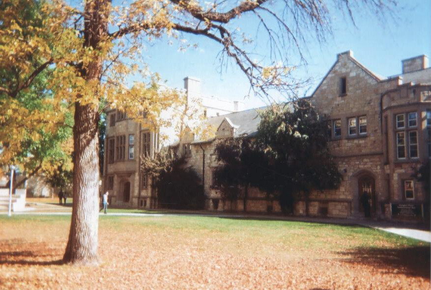 Saskatchewan Hall is a student residence at 91 Campus Drive, University of Saskatchewan, Saskatoon, Canada.